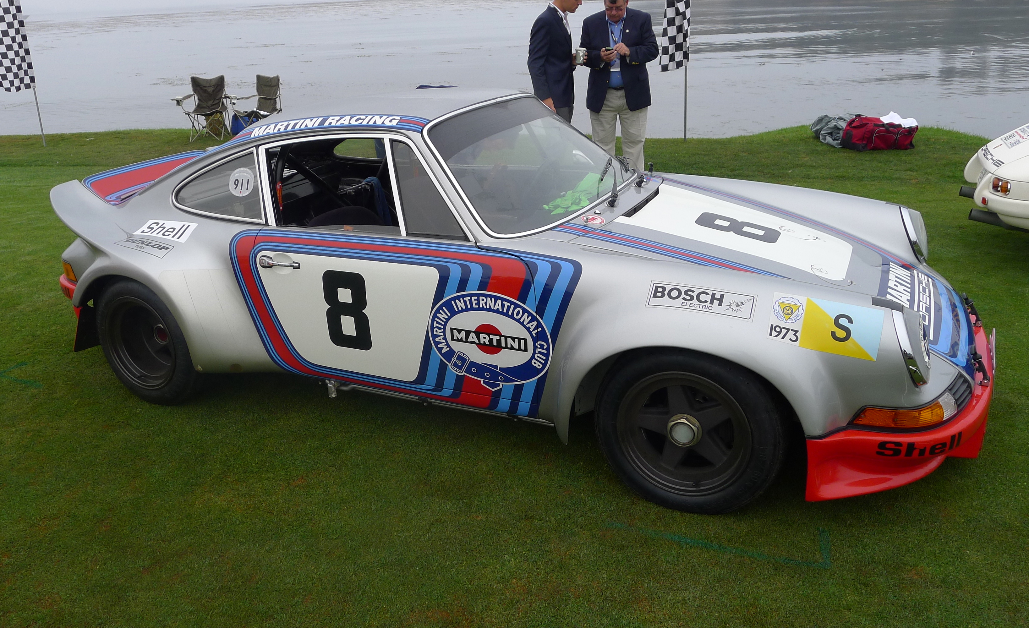 One of the most famous racing liveries. I liked that the Concours featured a lot of historic racers.